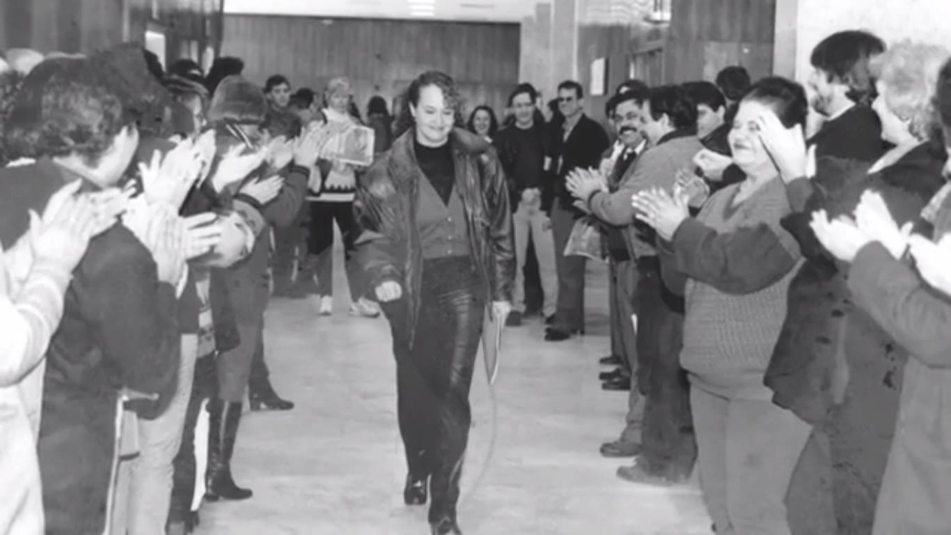 Deputada Estadual